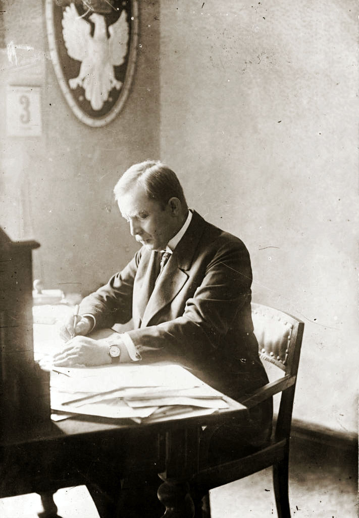 Wojciech Korfanty (1873-1939) - Polish politician